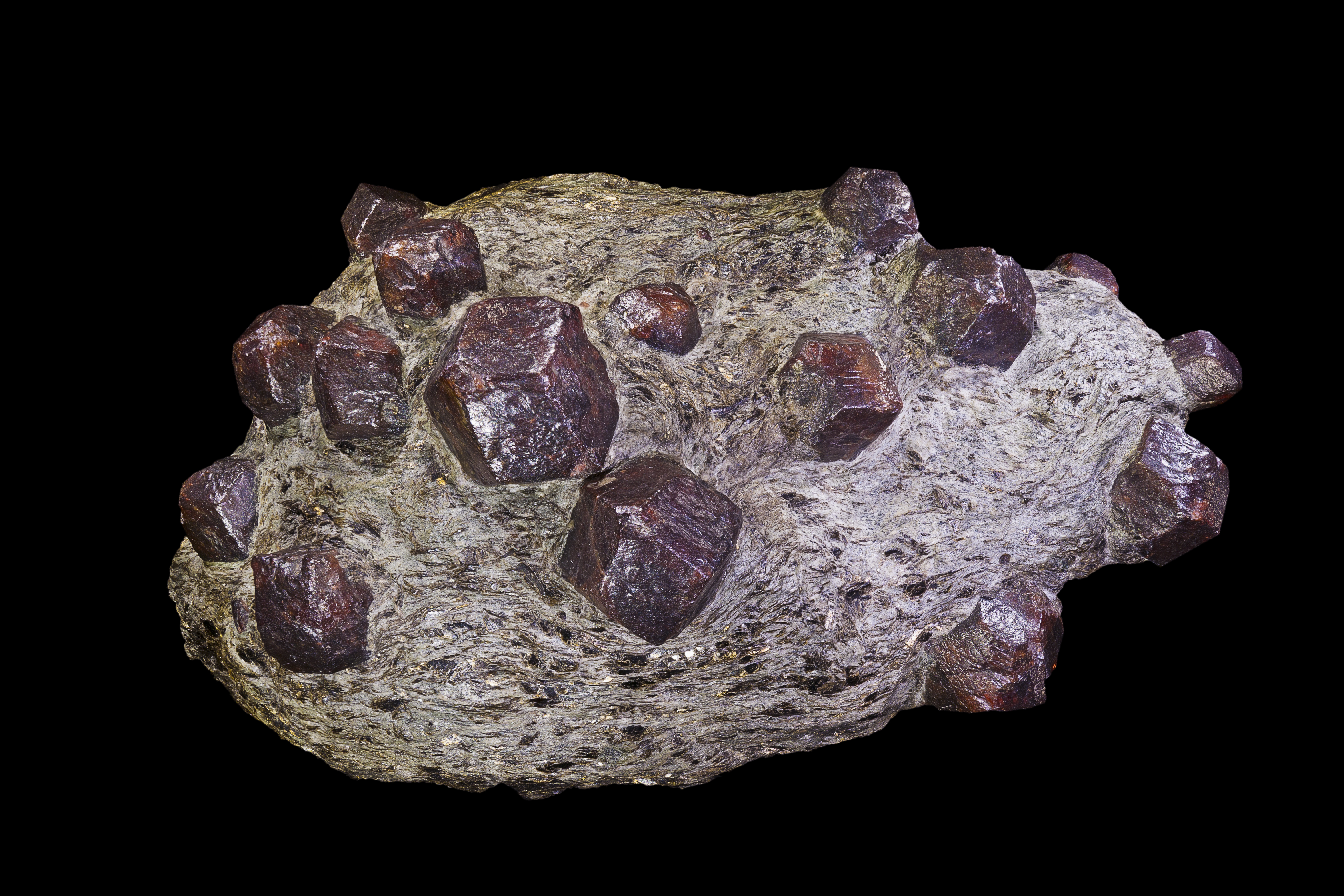 Almandine on gray-green schist Locality : Granatenkogel Mt. (north slope), Gaisberg valley, Obergurgl, Ötz valley,North Tyrol, Tyrol, Austria Size 19x11x7cm